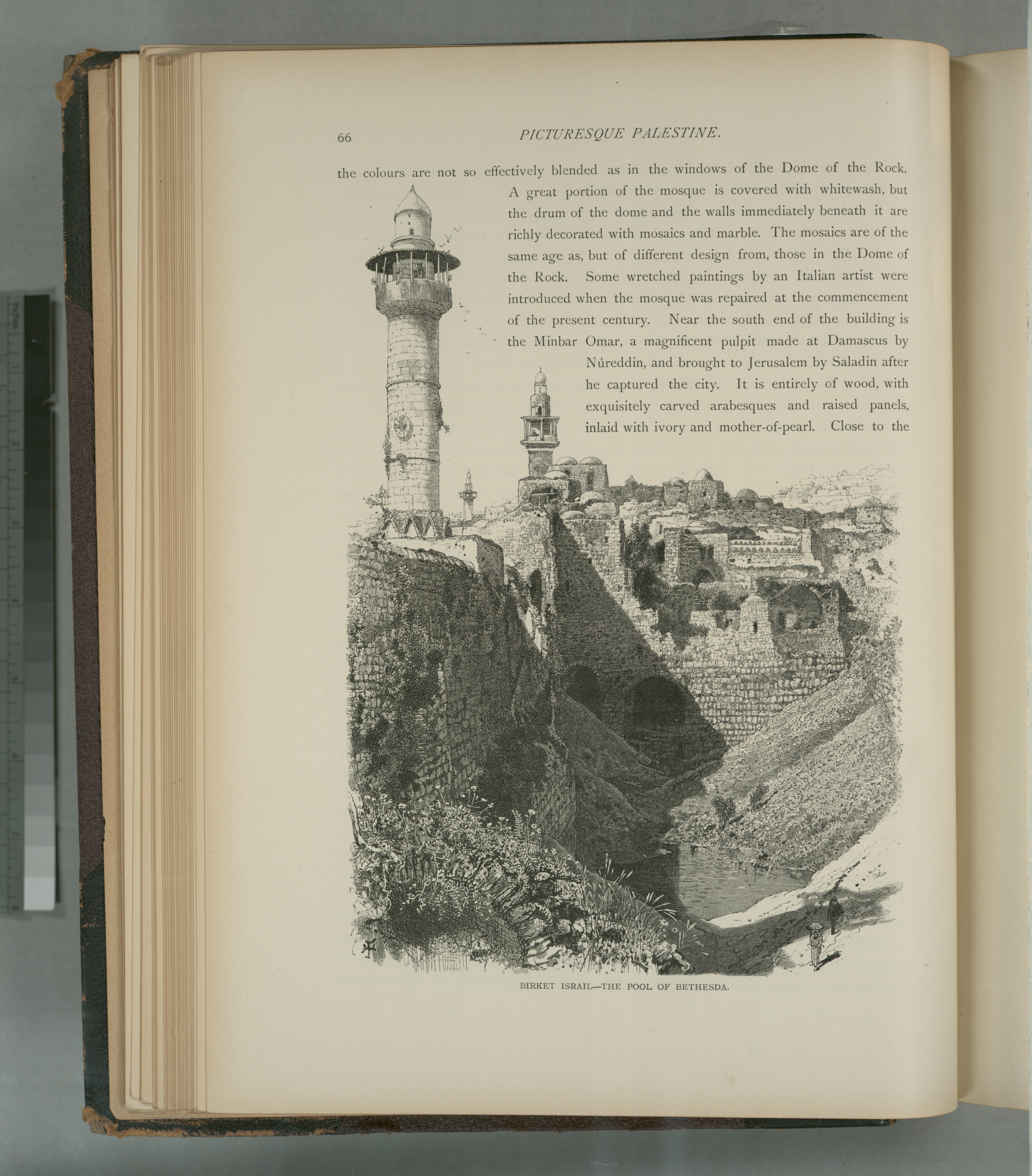 Colonel Wilson, ed. Here, opposite the basins of Bethesda, already at the time of the Second Temple, there was another basin near the walls of the Temple Mount, which even for some time was considered by the pilgrims as "Sheep". This is the Israel Basin (Birket Israil), was located in the channel of the Beit Zeit (Betseta) stream. Over time, the pool turned into an unsanitary pit, which was filled in 1936 by the mandate authorities. And on the place of the covered pool they arranged a park (EL-GHAZALI SQUARE)